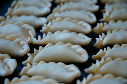 Roast pork pastries